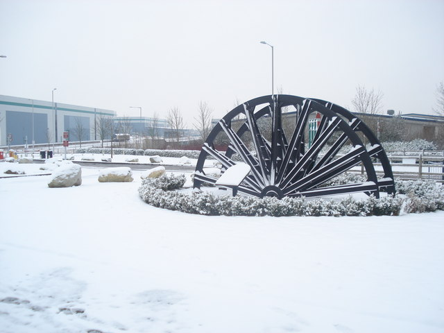 Coventry Colliery Monument Monument erected in 2008 to the workers at the former Coventry Colliery and smokeless fuel plant. The colliery site is now occupied by the warehouses of Prologis Park, visible in the background.